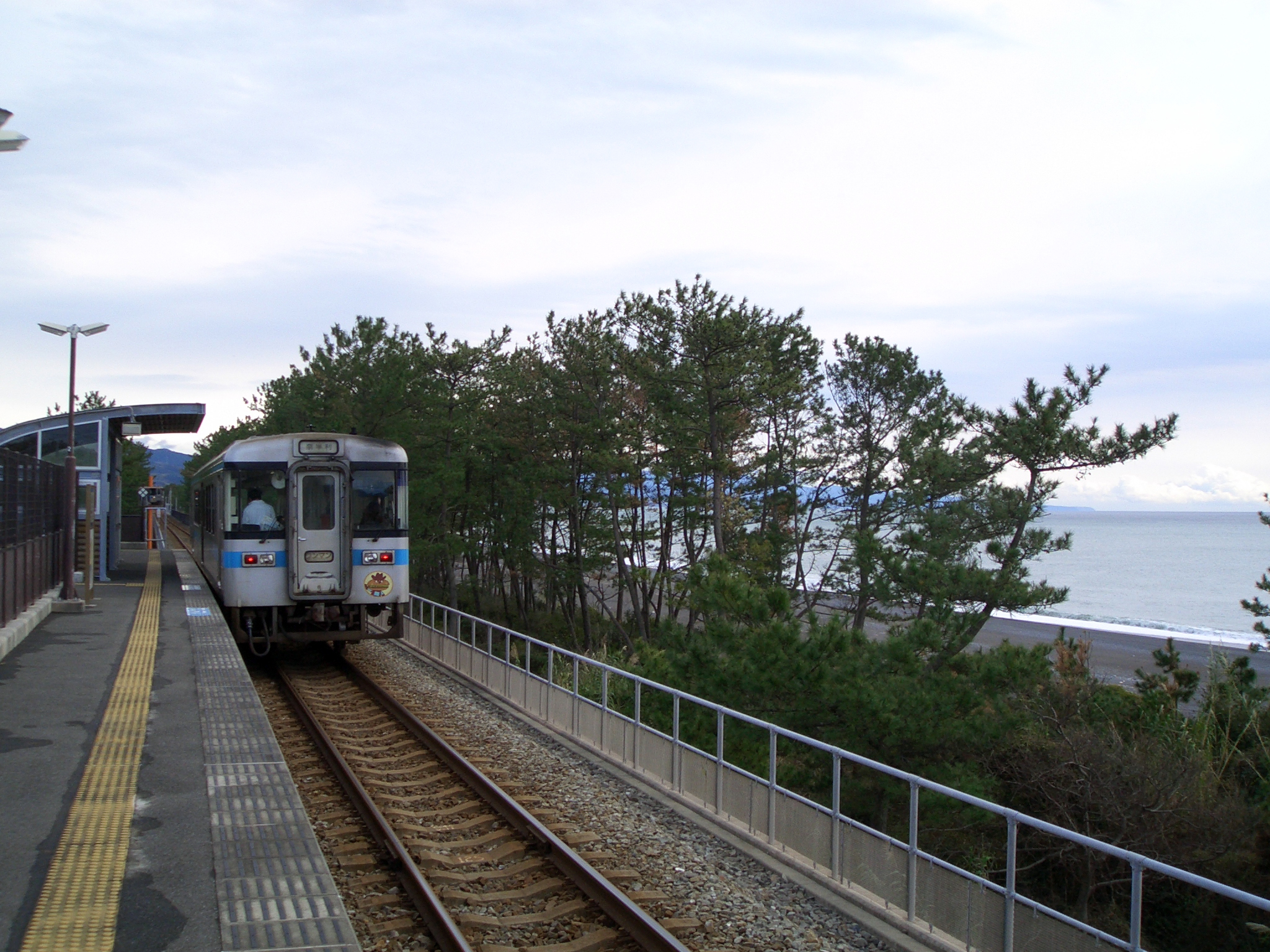 Nishibun Station in Geisei, Kōchi pref., Japan.